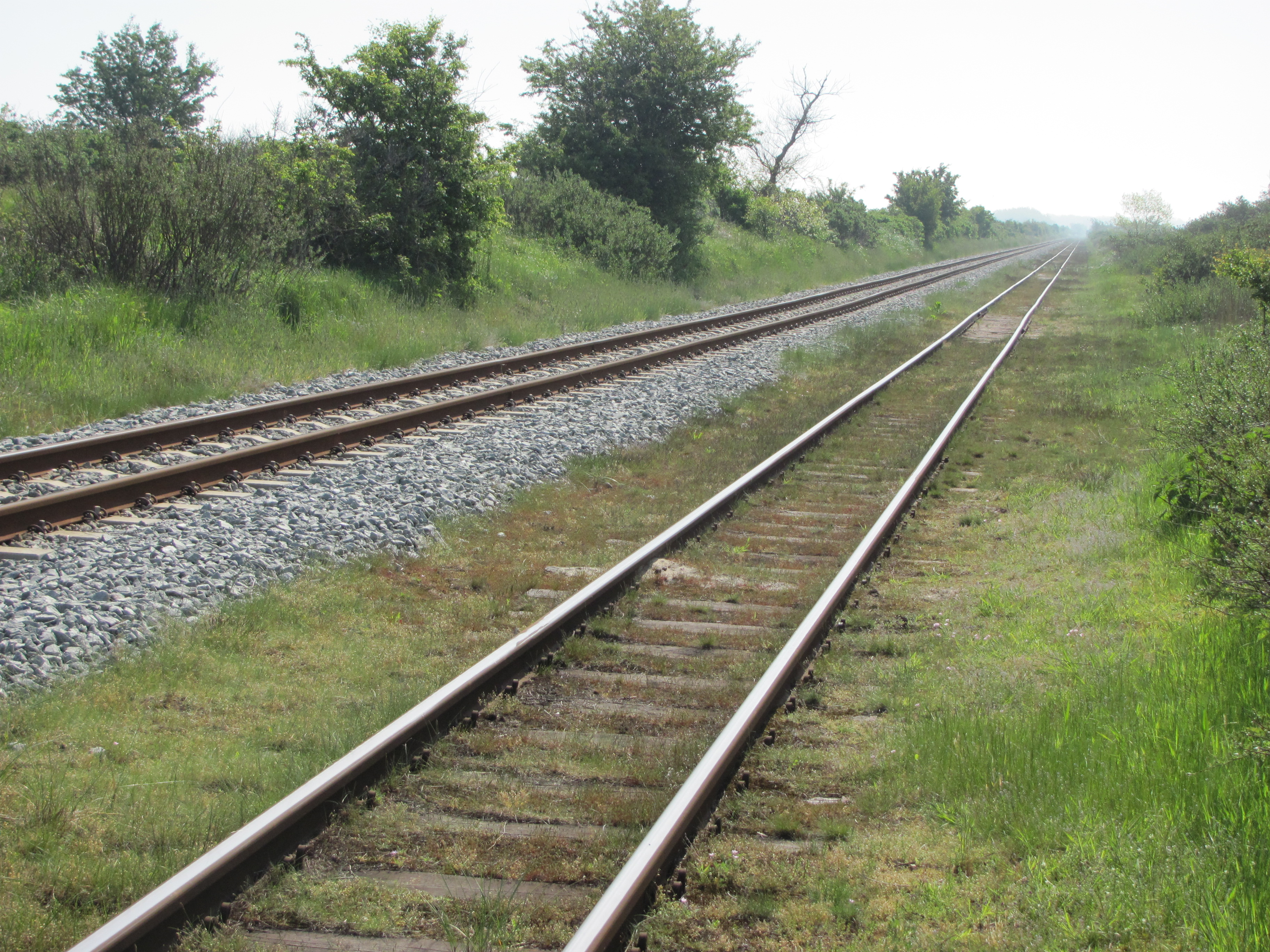 BKB line